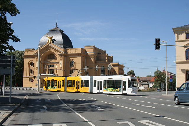 NGT8G tramway in front of Gera theatre, Thuringia, Germany